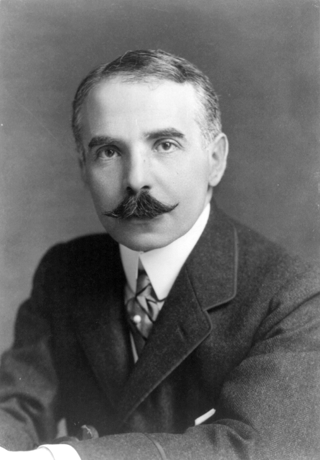 Otto Herman Kahn